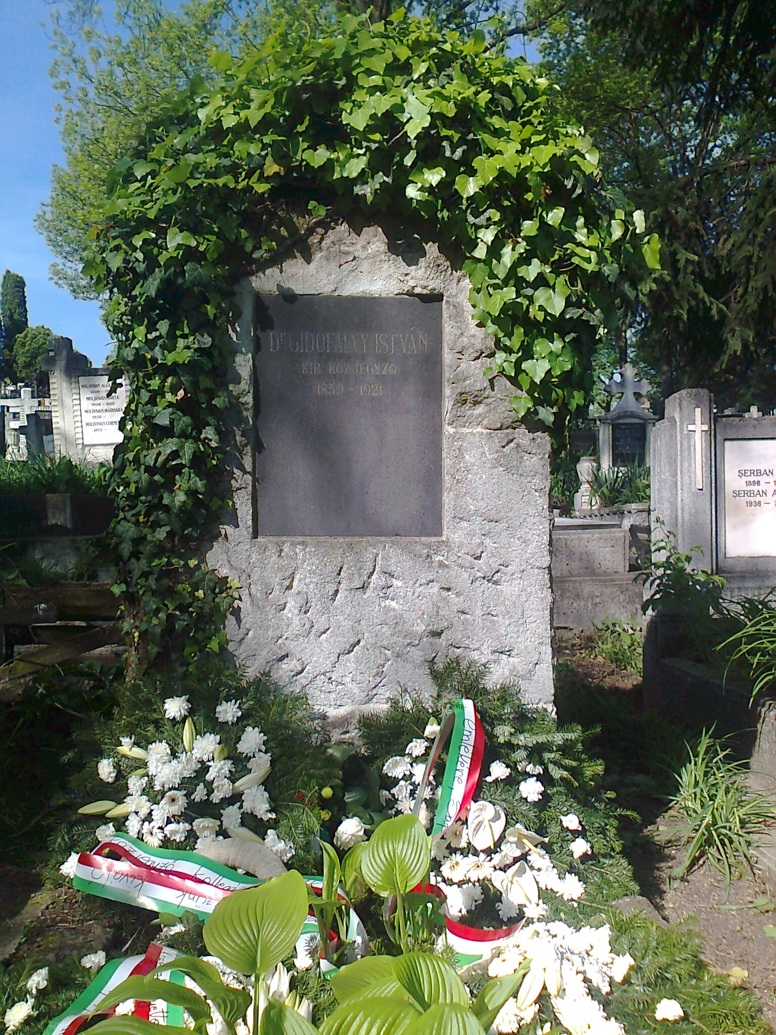 Grave of Dr. István Gidófalvy (1859-1921) royal notary (Cluj)